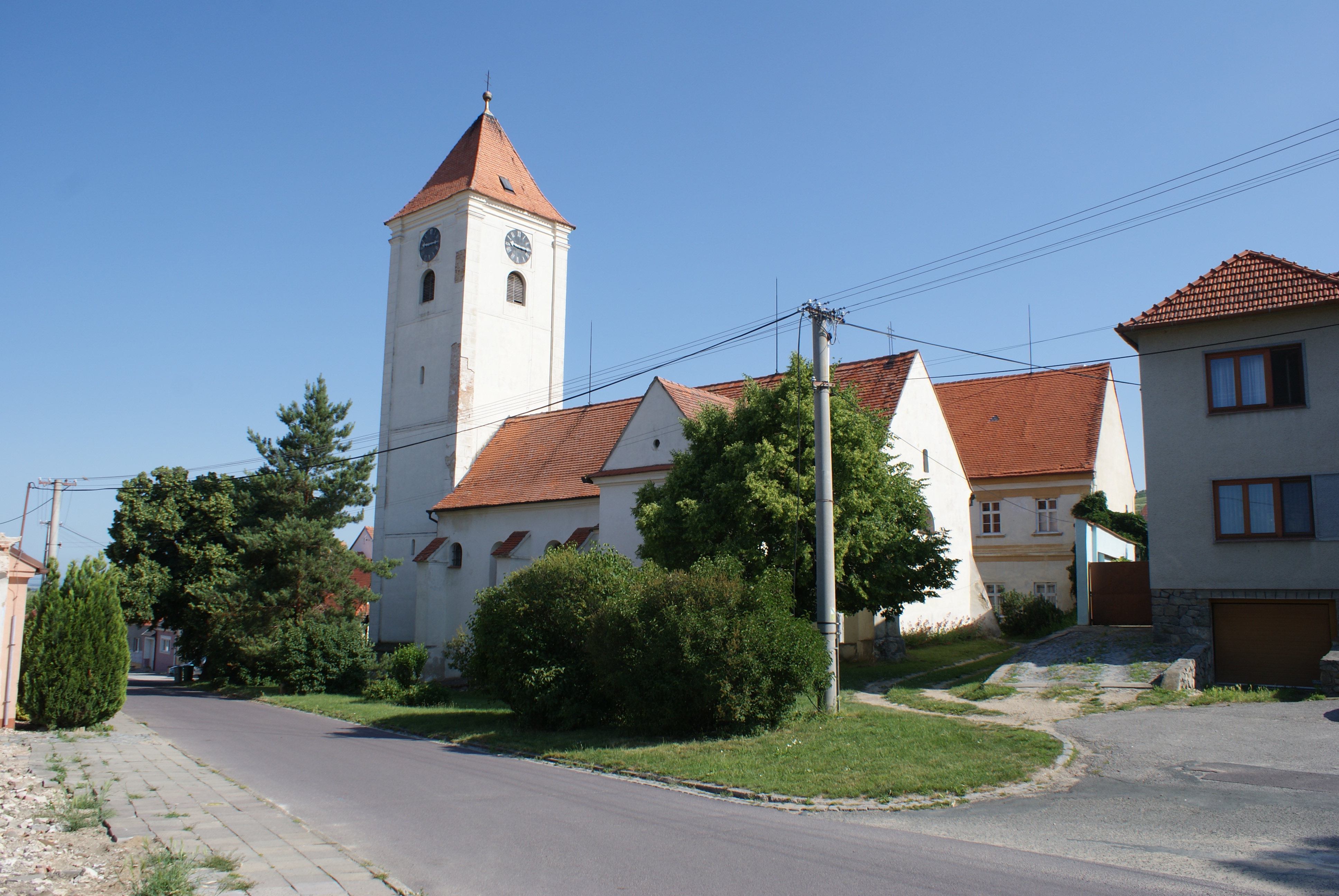 Perná, a village in Břeclav District, Czech Republic, church.